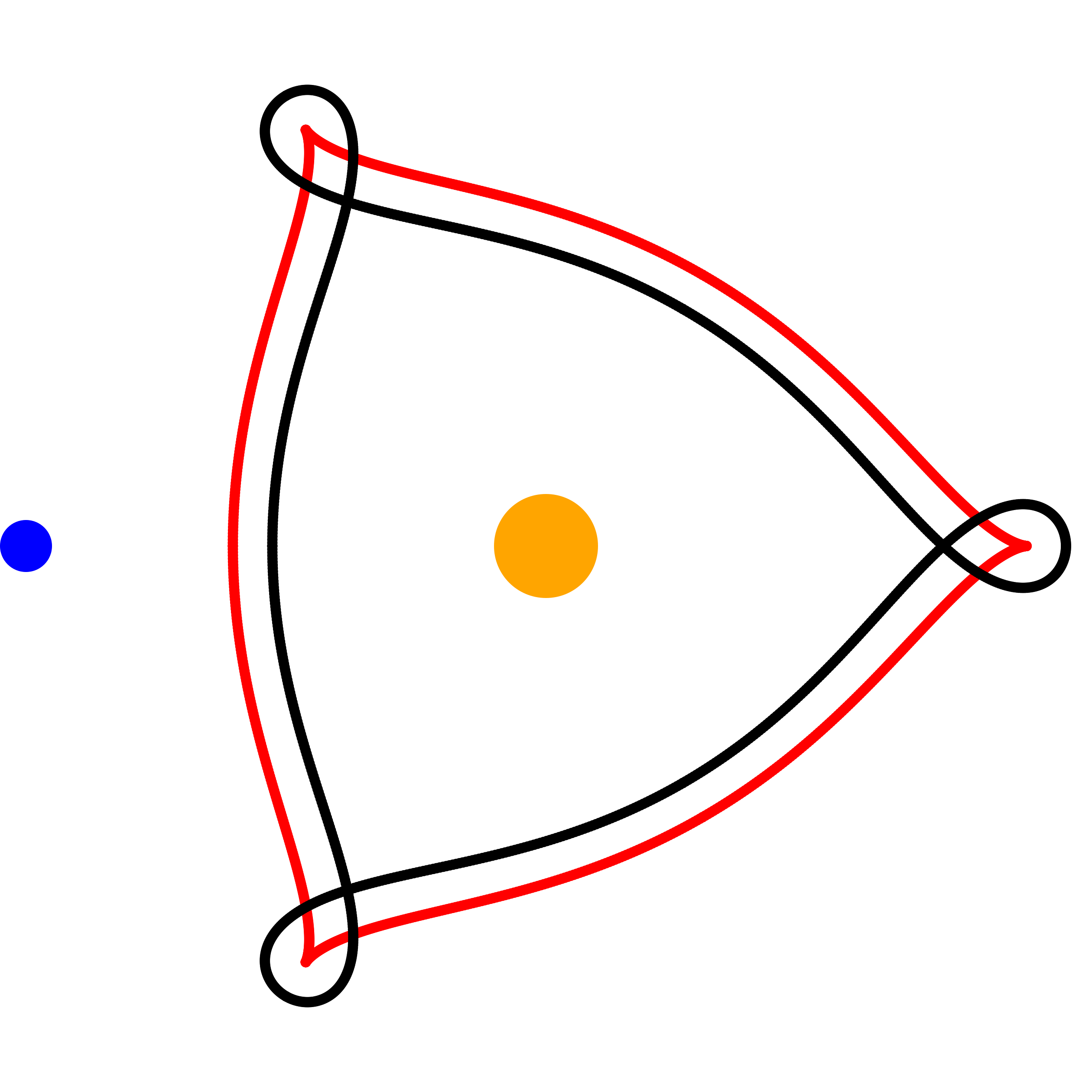 Orbits of two idealized asteroids of the Hilda family, in the rotating reference frame of Jupiter. Black: eccentricity 0.310; aphelion at Jupiter's orbit. Red: eccentricity 0.211.